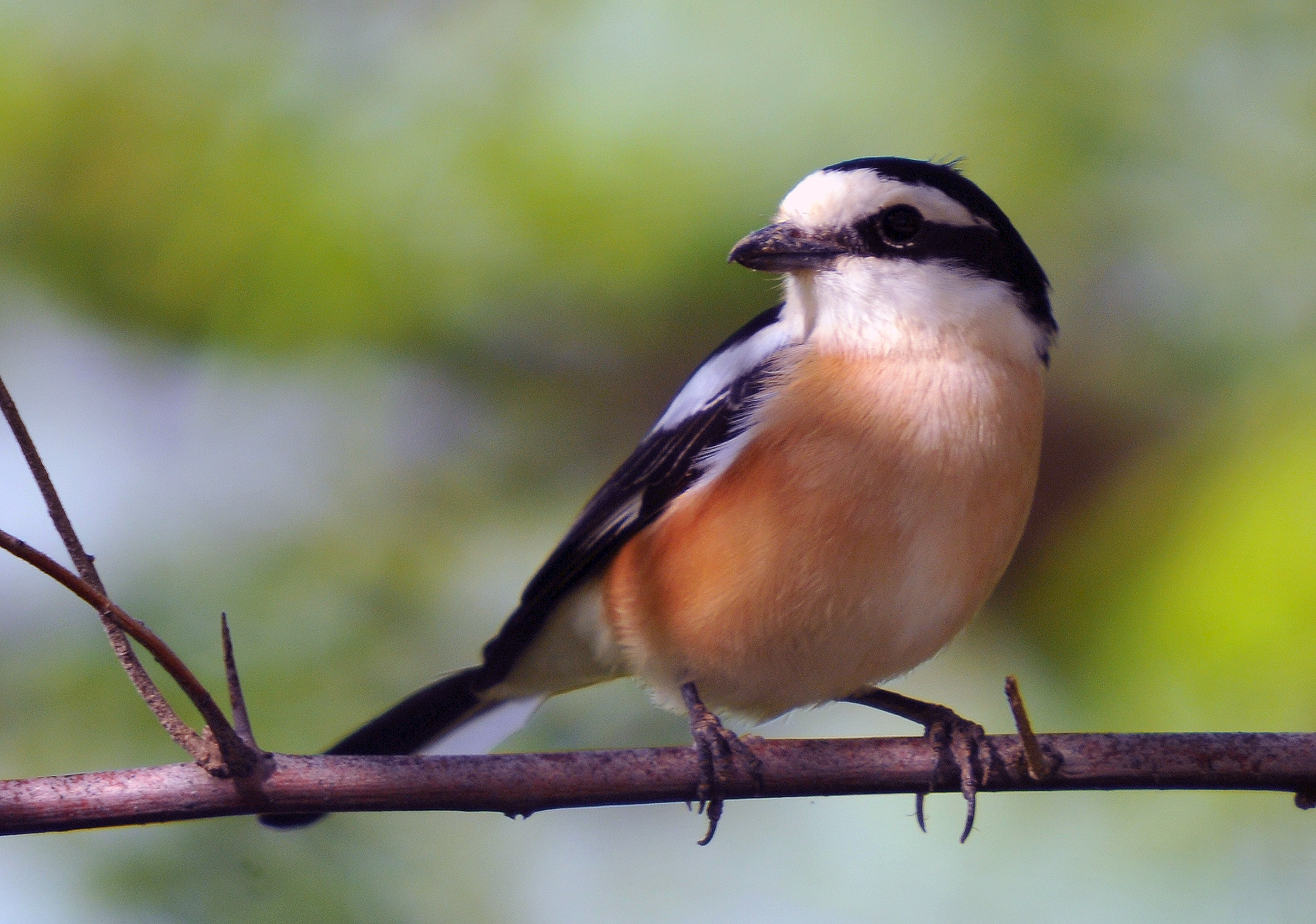 A male Masked Shrike